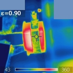 The photo shows a terminal connection fitted to a silicon carbide element. The terminal appears to be hotter than the element, because its emissivity is lower. The terminal is made from a white ceramic.